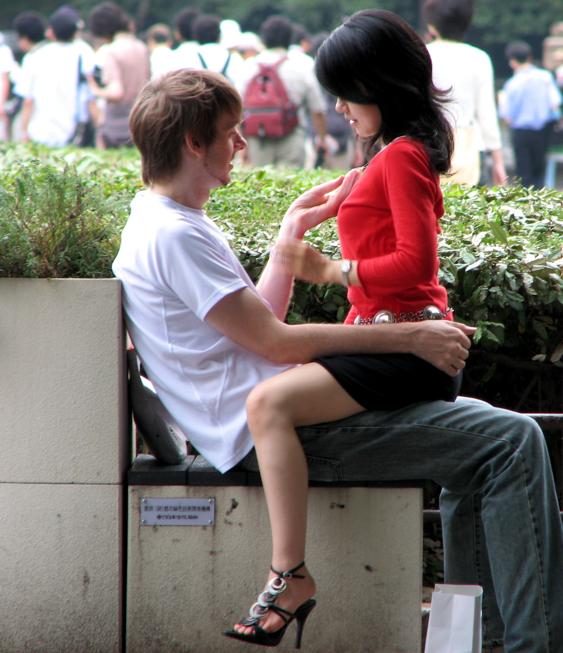 Couple in love in Tokyo.